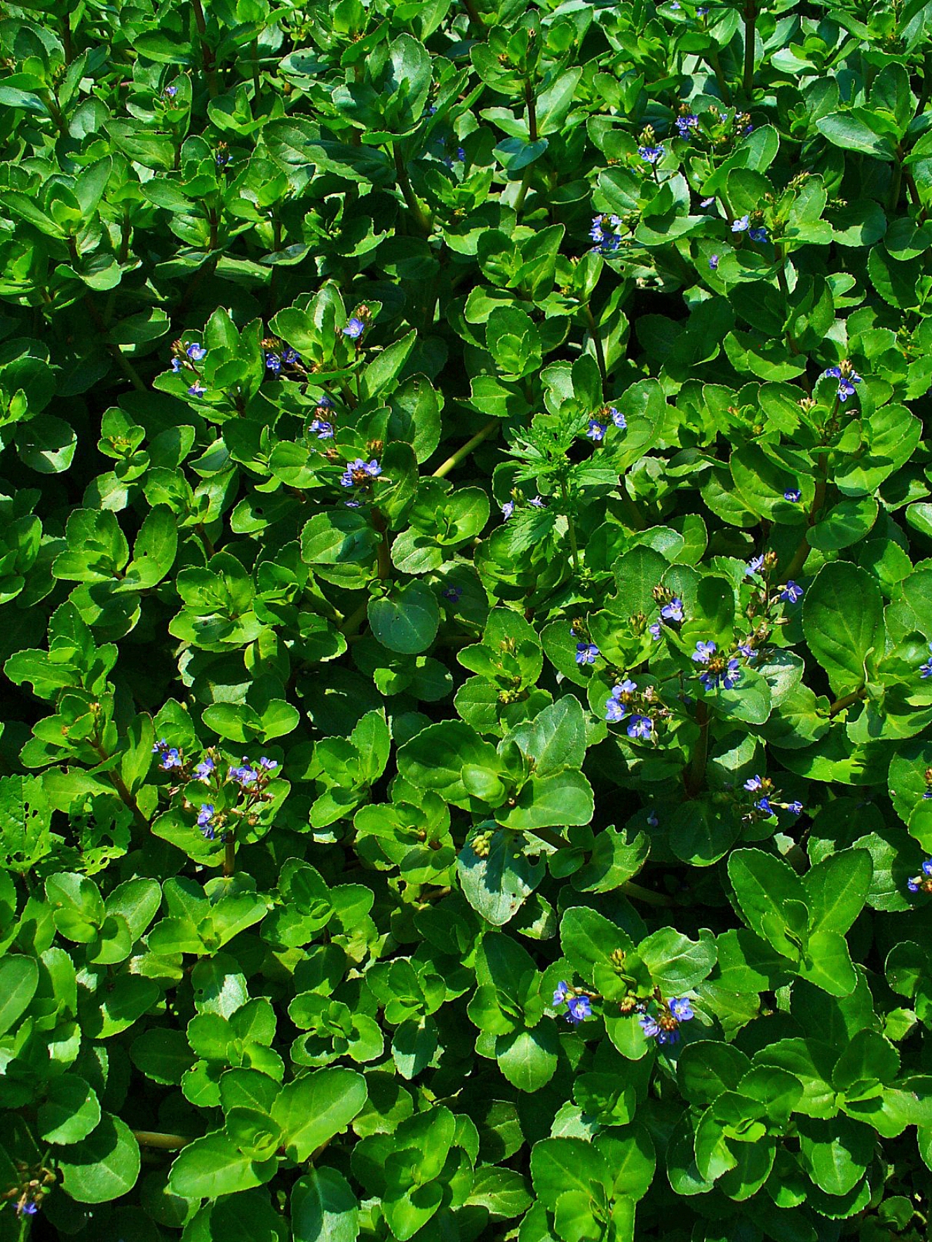 Veronica beccabunga, Plantaginaceae, Brooklime, habitus.